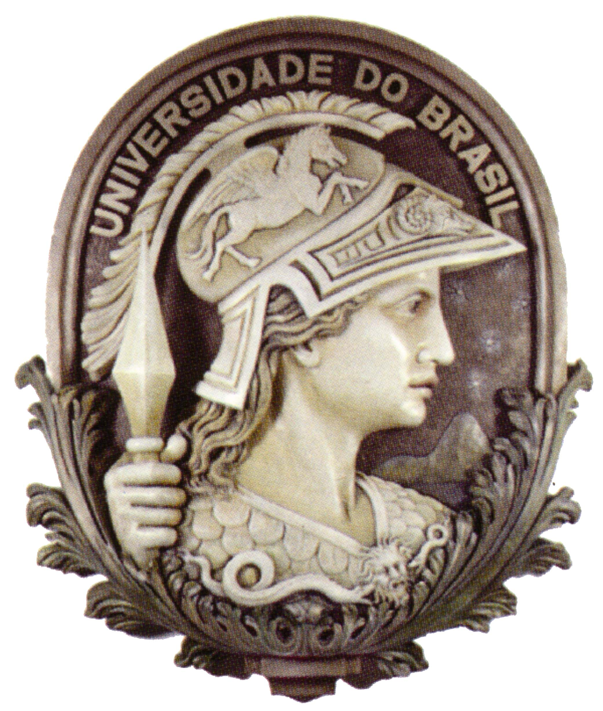 The Roman goddess Minerva is the symbol of the Federal University of Rio de Janeiro, also called the University of Brazil. This symbol is widely used in the university's institutional identity.